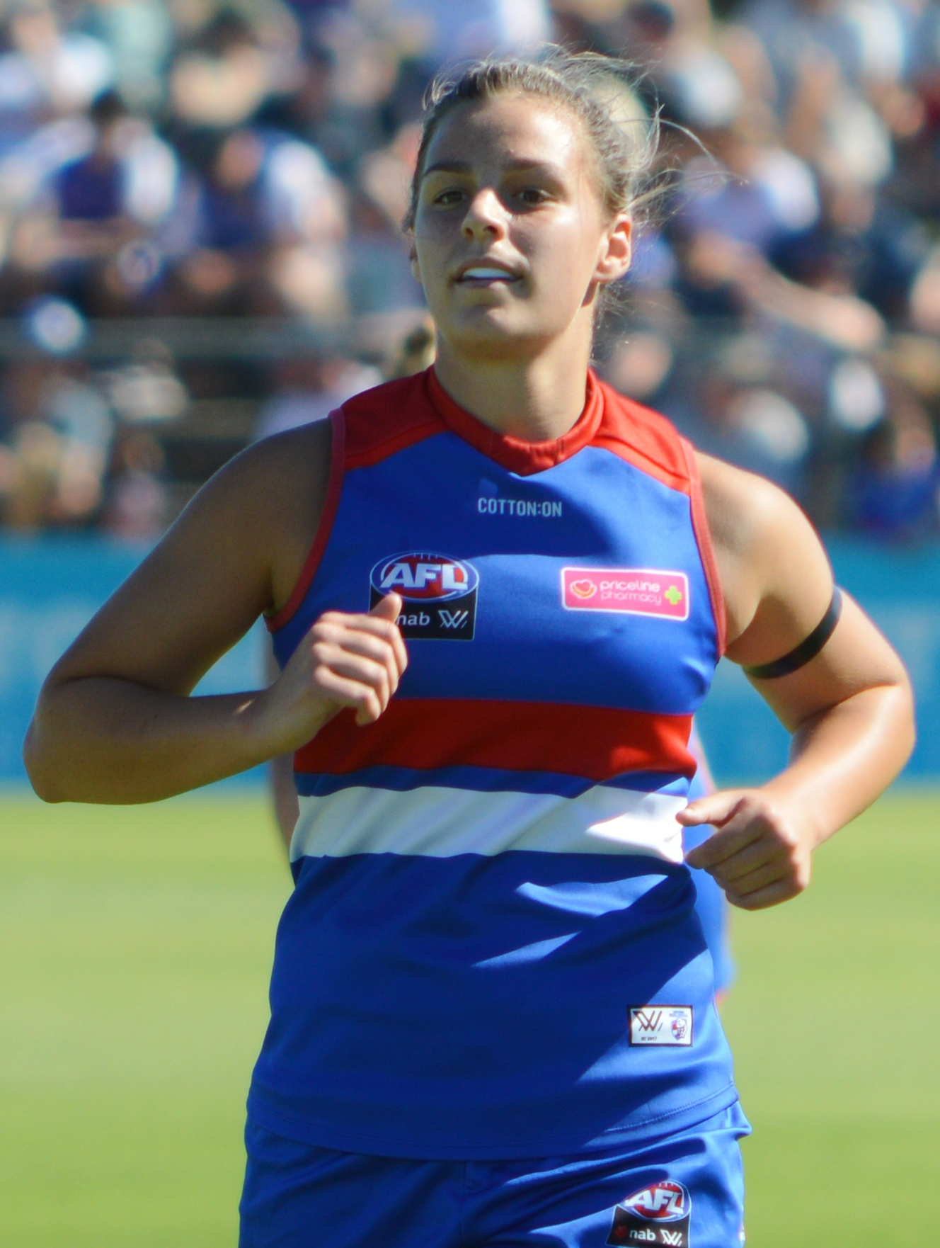 Deanna Berry during the round 1, 2018 AFL Women's match between the Western Bulldogs and Fremantle.